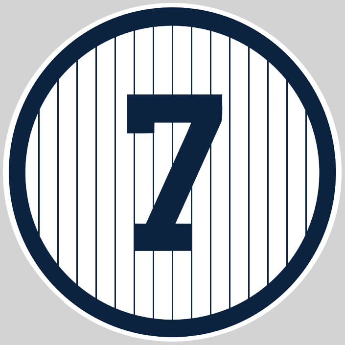 Image represents the current version of Micky Mantle's No. 7 seen in Monument Park in Yankee Stadium